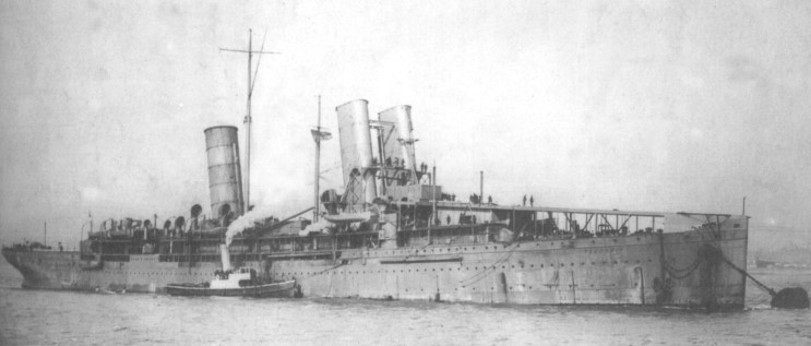 The aircraft carrier Campania; Imperial War Museum image SP 114